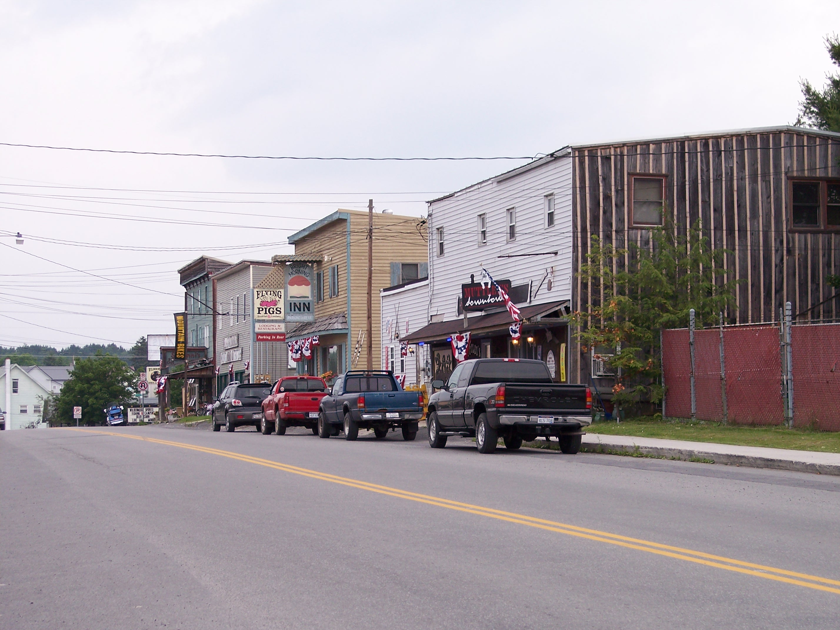 William Avenue (West Virginia State Route 32) in Davis, West Virginia